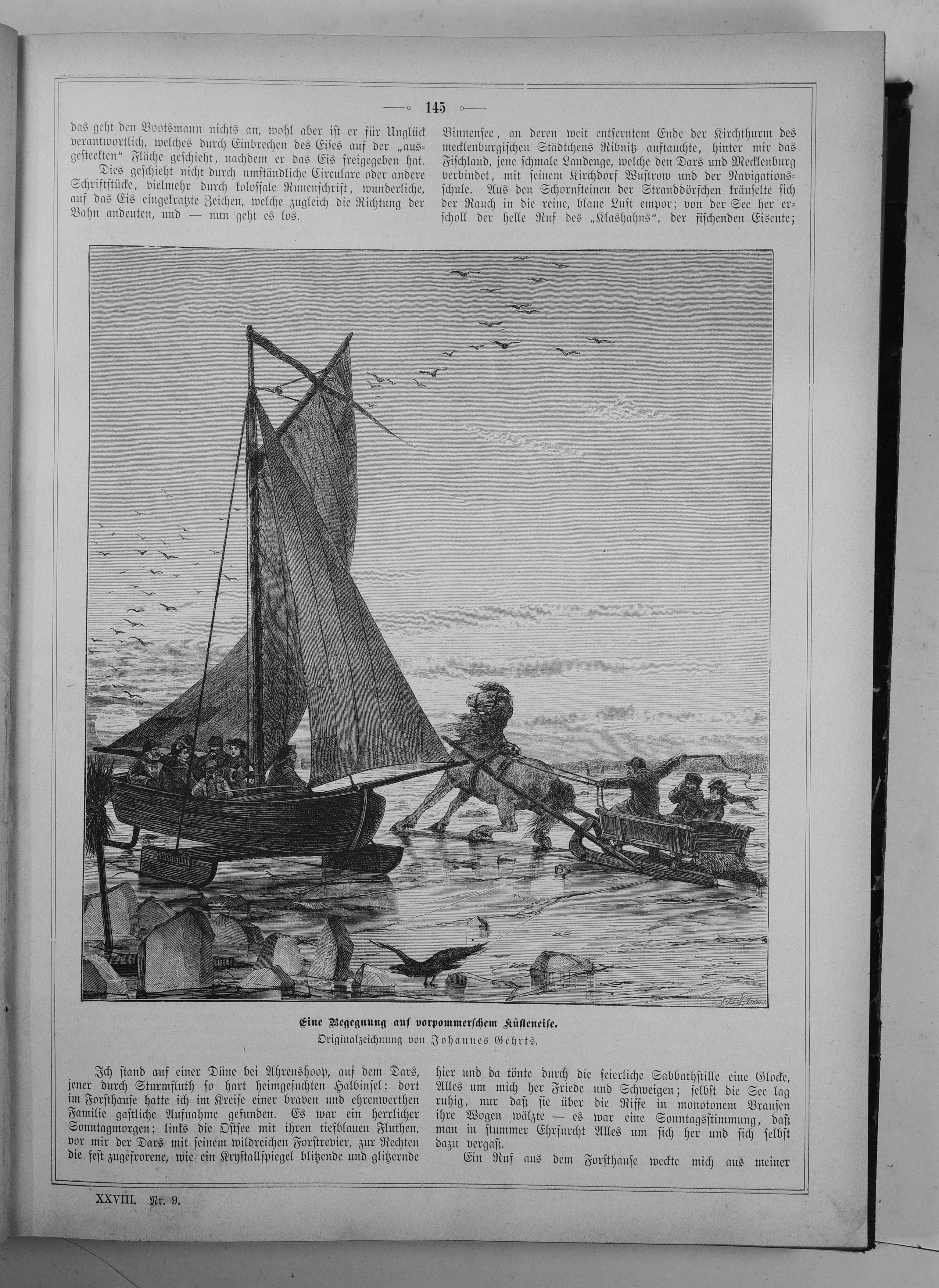 Page 145 from journal Die Gartenlaube for 1880. Extracted image (if any): File:Die Gartenlaube (1880) b 145.jpg - hi res, ~2.5 MB.